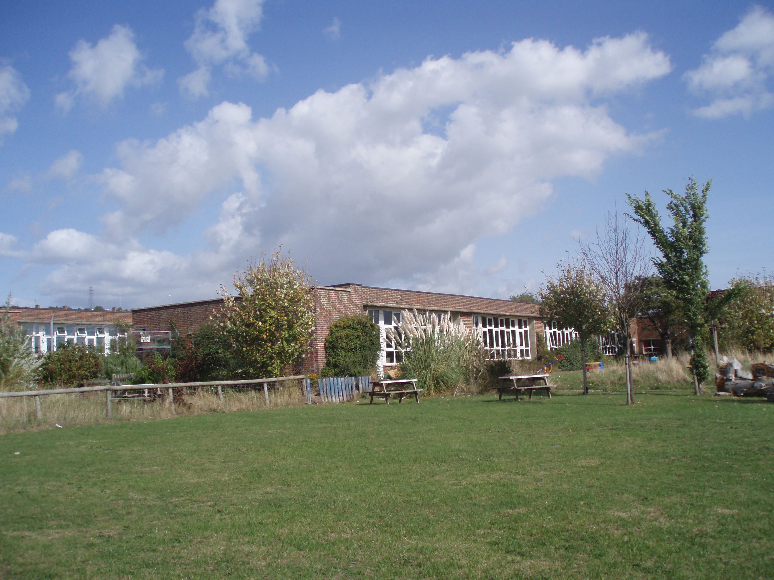 Photo taken by Matthew Eyre, 20th September 2006